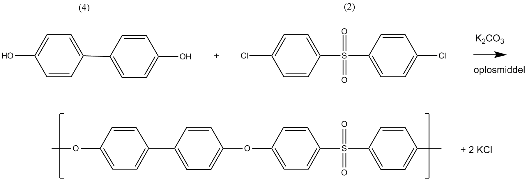 polyphenylsulphone polymerisation reaction